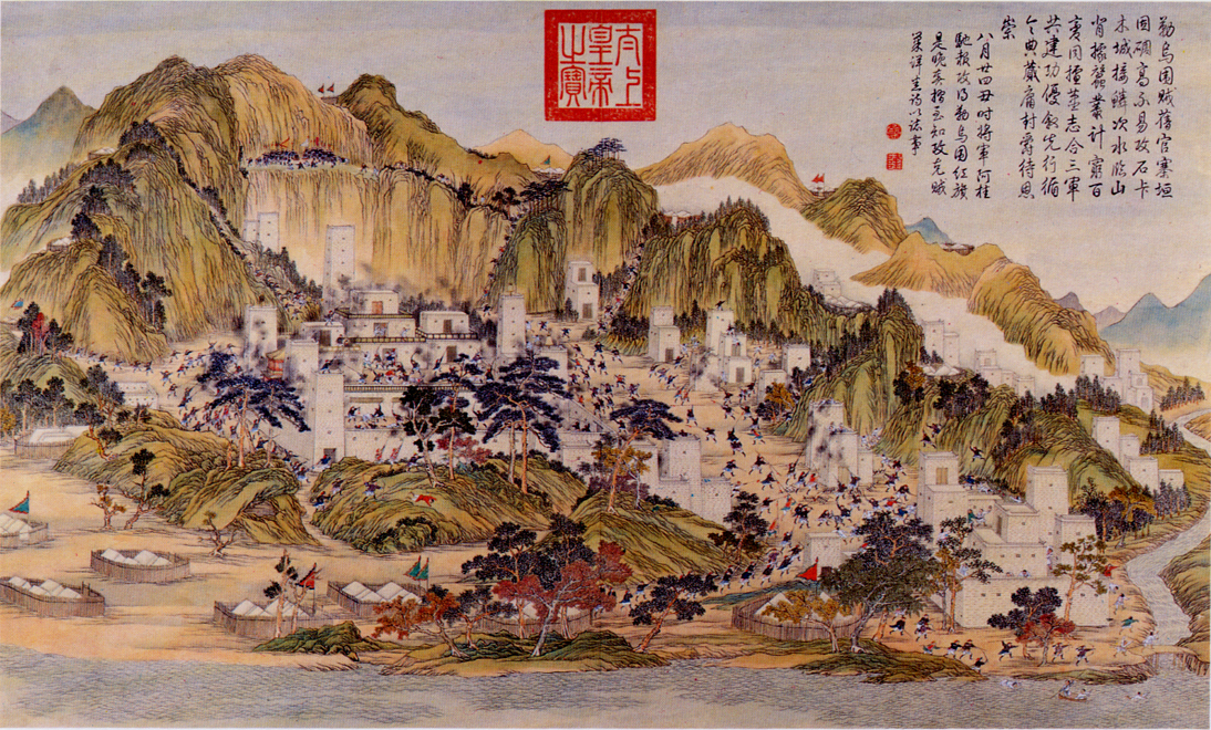 A scene of the Jinchuan Campaign 1771-1776